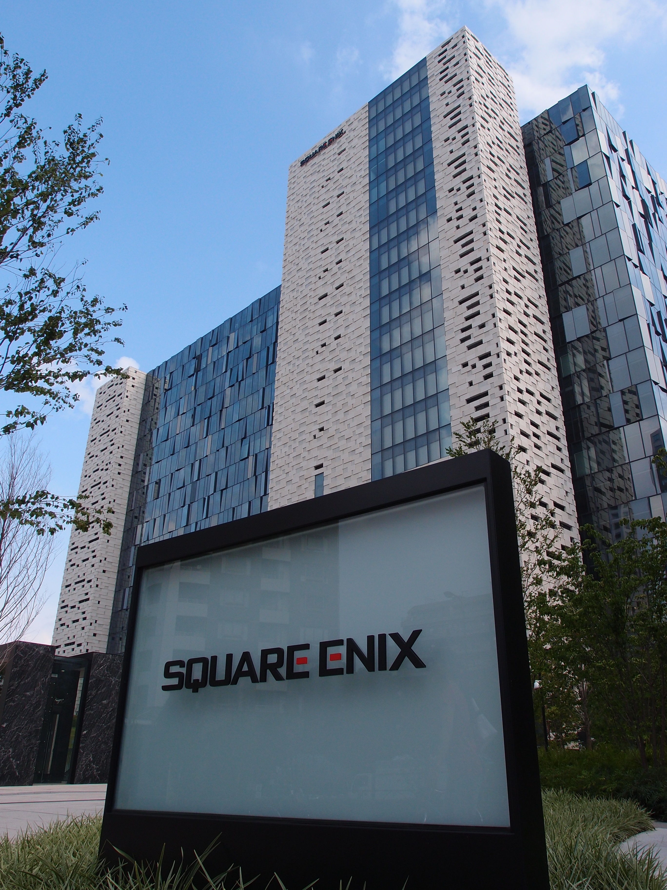 "Square Enix" @ Eastside Square @ Higashi Shinjuku